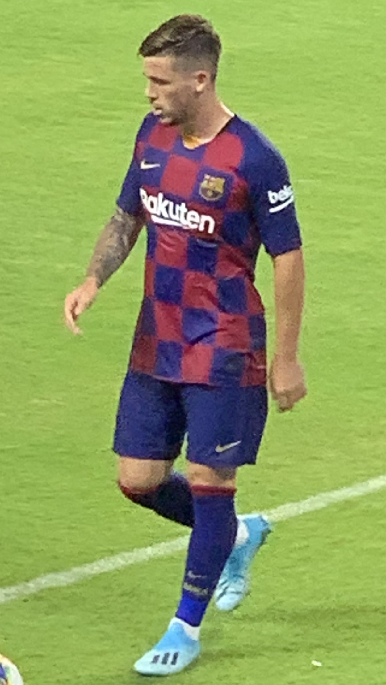 Barcelona friendly against Napoli in Miami, Florida.